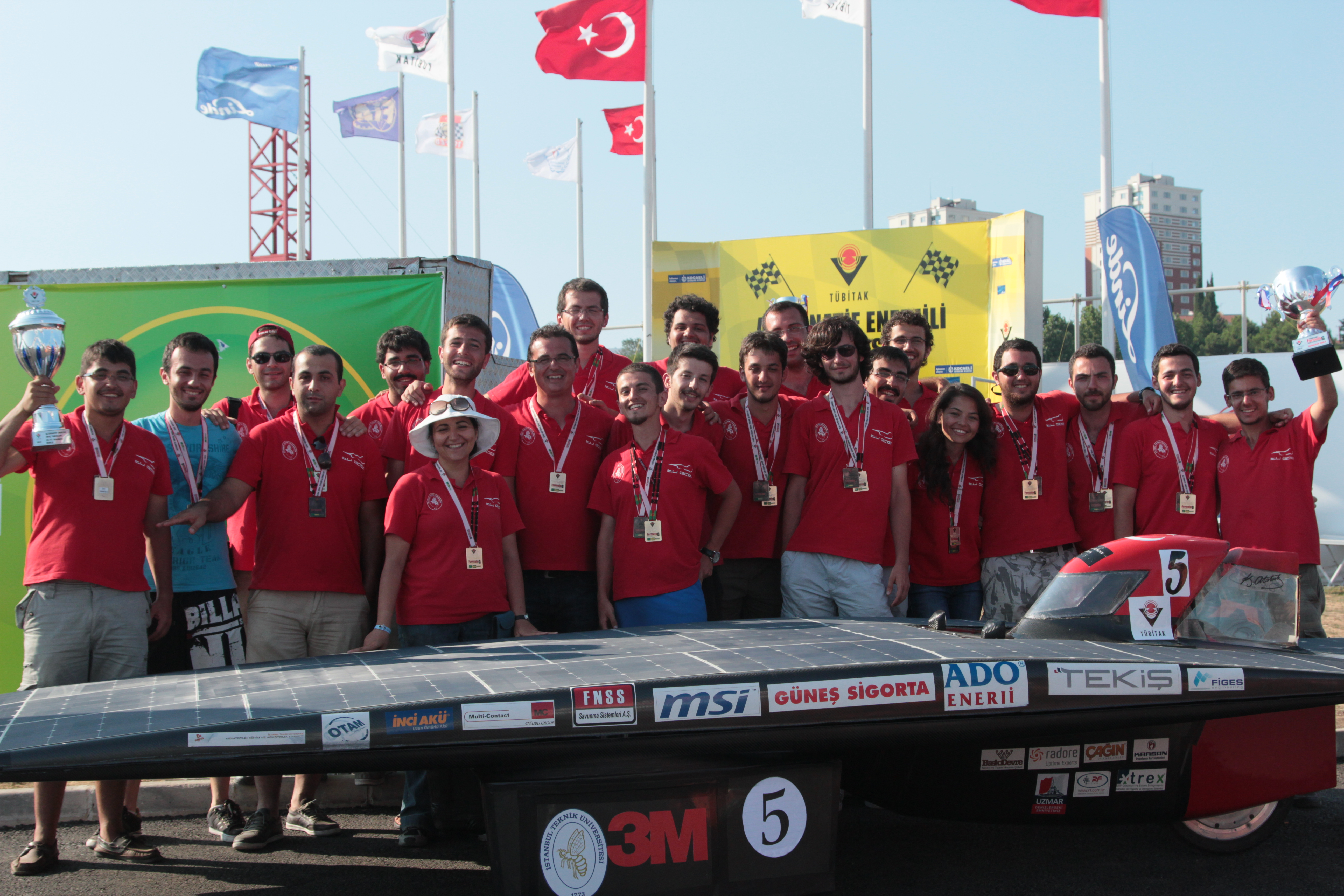 2012 formula-g